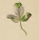 Stainton’s Natural History of the Tineina (1855–1873): Parectopa ononidis mined clover leaf